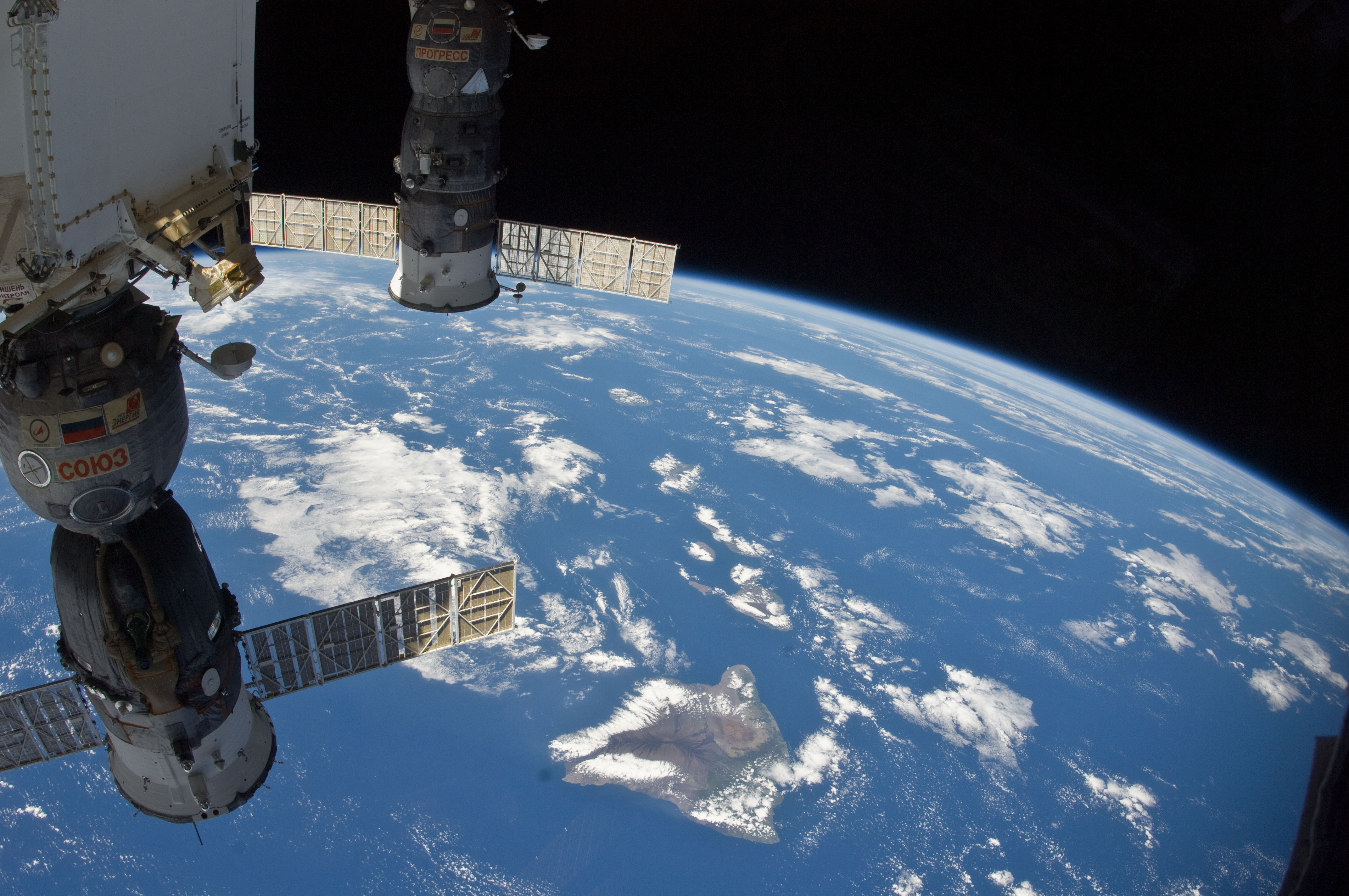 An astronaut photo of a Russian Soyuz (foreground) and a Russian Progress vehicle, over the Pacific Ocean. The large visible island is Hawai'i